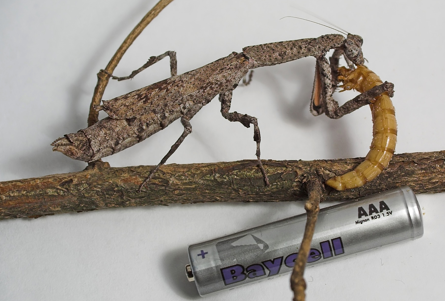 Popa spurca crassa (adult) with larva of Zophobas morio